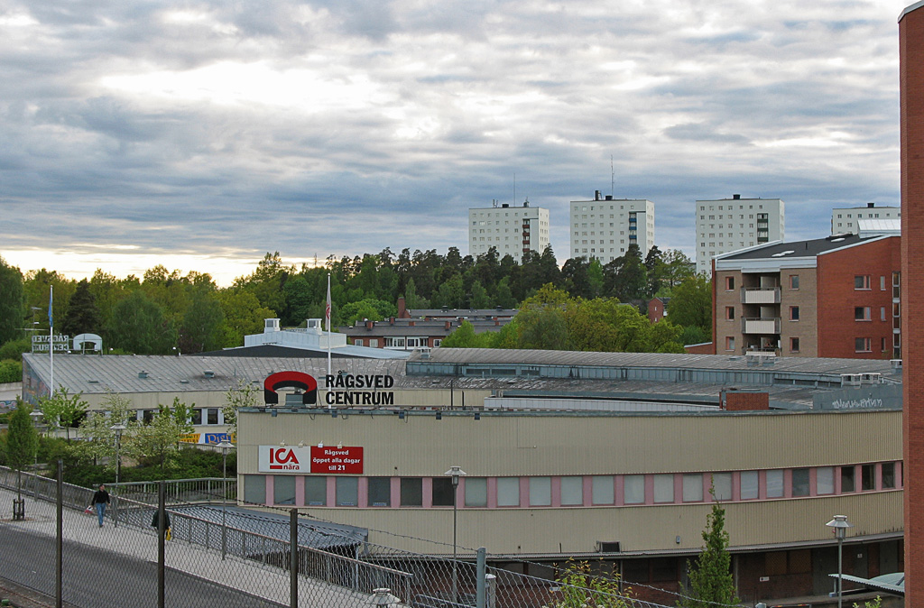 View of northwest Rågsved with its horseshoe shaped center